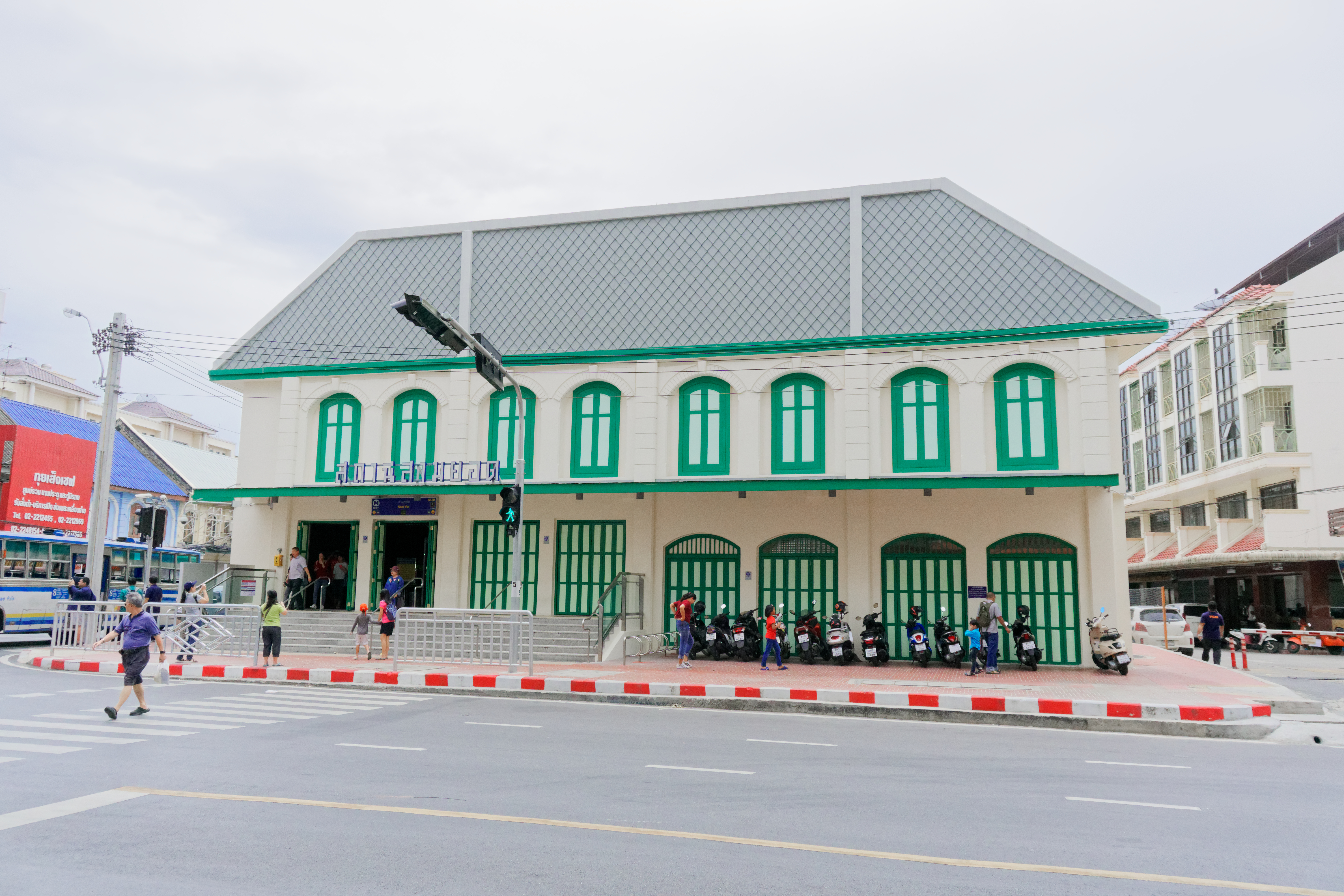 MRT Sam Yot exit 1 building